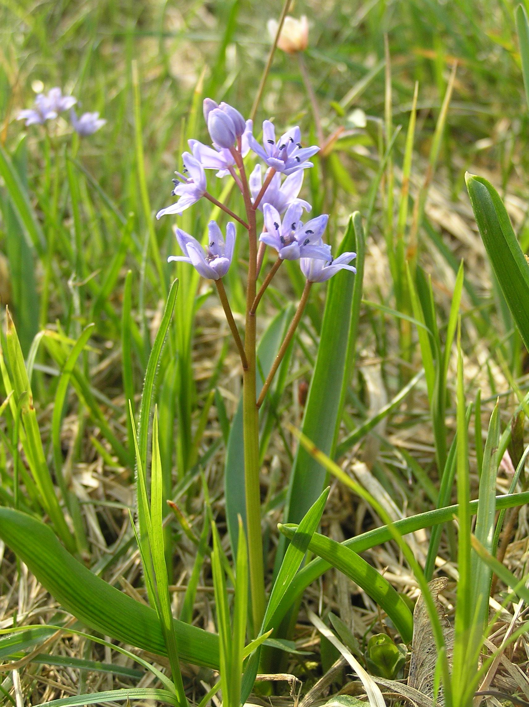 Scilla kladnii, the settlement Podhůra near Lipní nad Bečvou, northern Moravia, Czech Republic